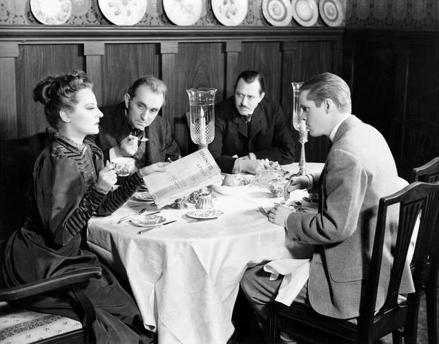 Photograph of the original Broadway production of The Little Foxes, starring (from left) Tallulah Bankhead, Charles Dingle, Carl Benton Reid and Dan Duryea